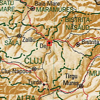 Map of Dej Municipality, Romania.